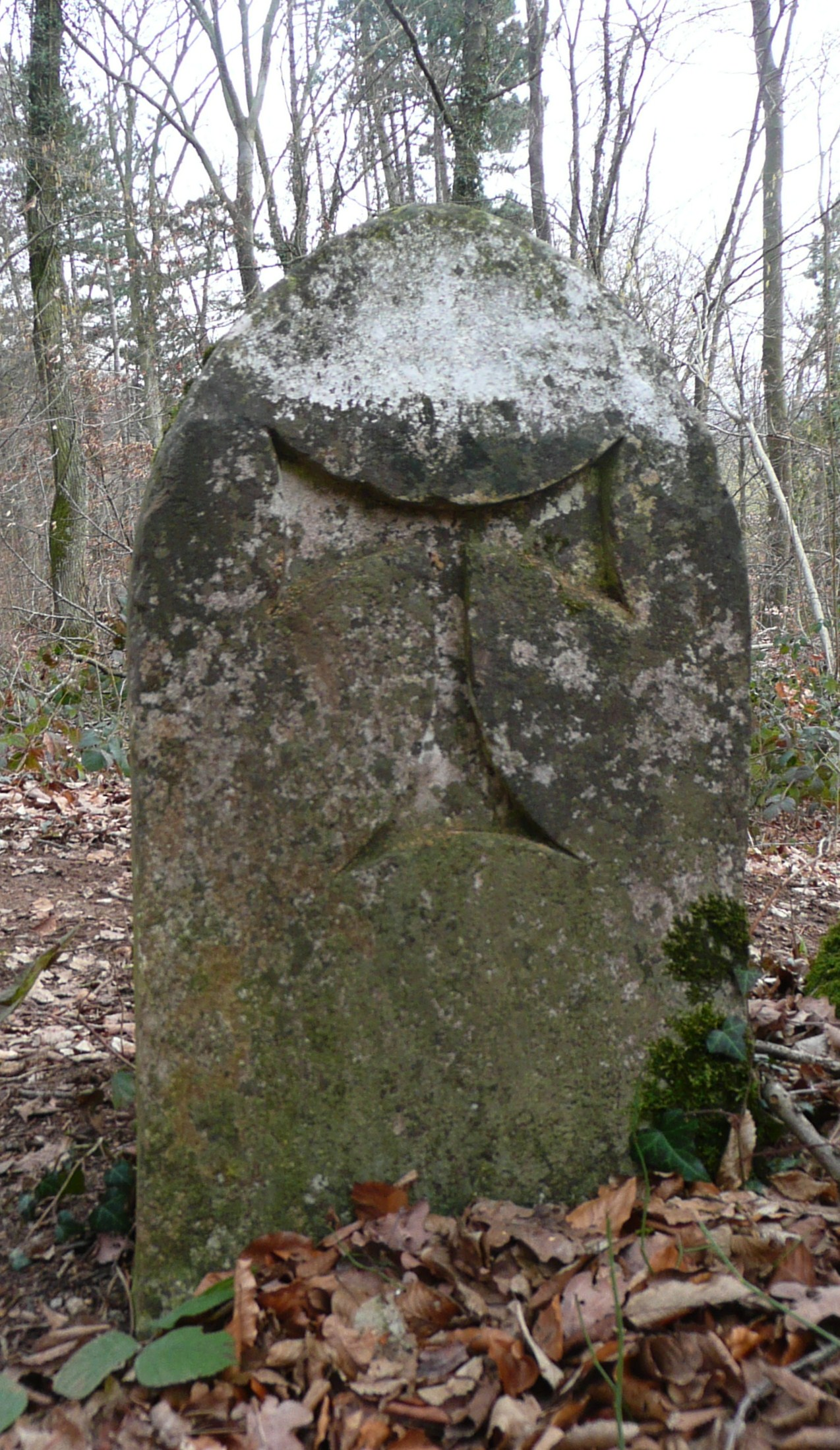 Stone located in the forest of Cuite, about a hundred meters from the road Dieulouard. It bears the "T" of Saint Antoine friars of Pont-à-Mousson.